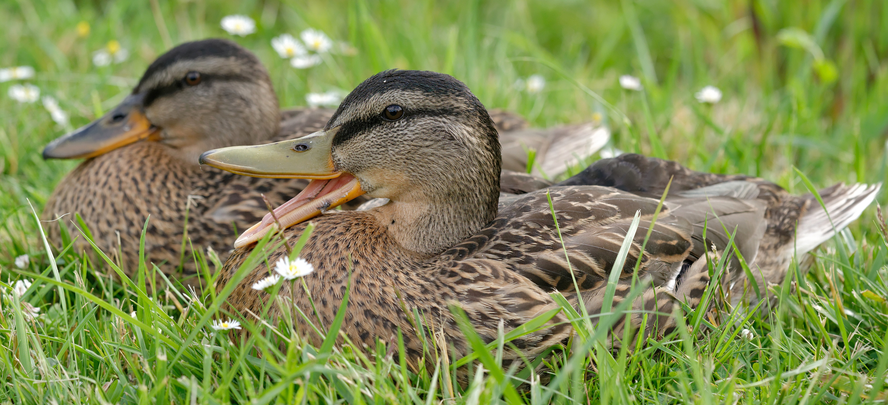 One male, one female mallard fledgling (Anas platyrhynchos) by a pond of the Jardin des Plantes, Paris.